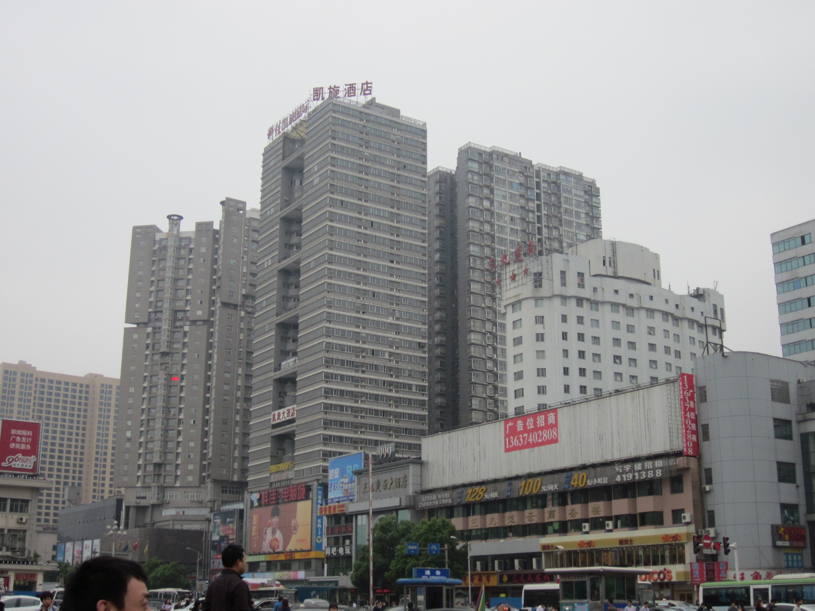 Changsha Railway Station